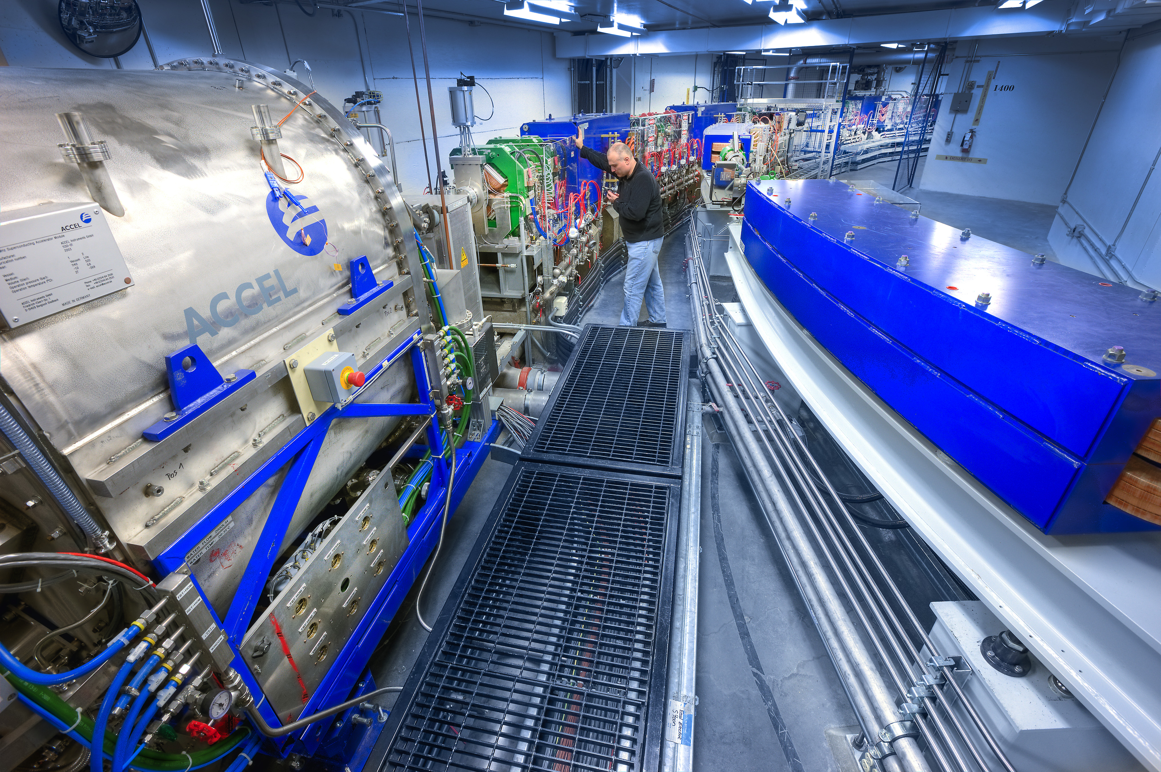 The superconducting RF cavity and booster-to-storage-ring transfer line, Canadian Light Source synchrotron